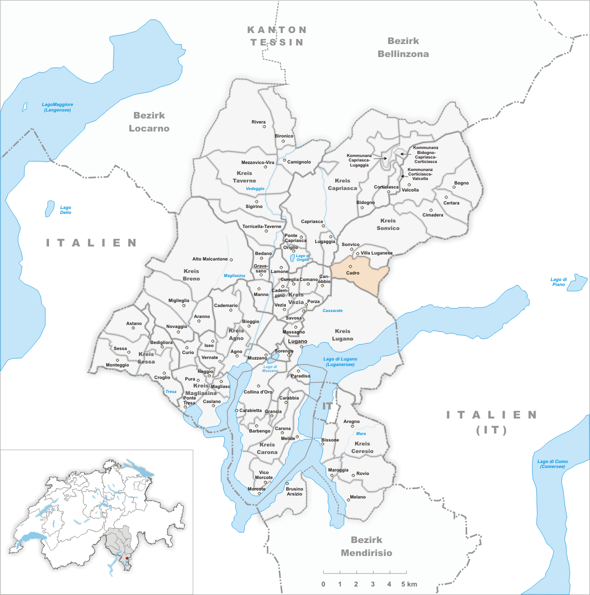 Municipality Cadro